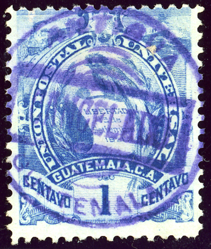 Stamp of Guatemala, 1 C issue 1887, engraved, blue cancelled ANTIGUA GUATEMALA CANCELADO. Yvert N°44.